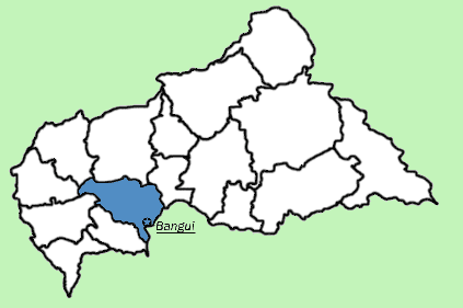 Map showing location of Ombella-M'Poko_Prefecture in Central African Republic